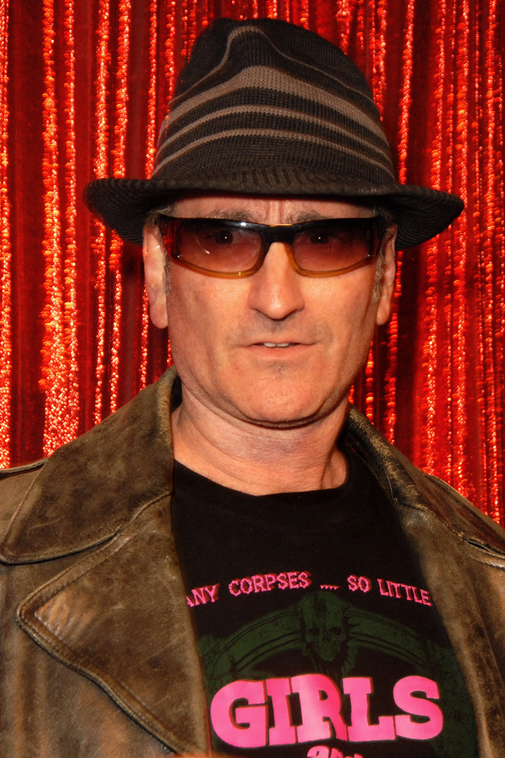 Robert Rhine attending the Girls and Corpses Magazine's 25th Anniversary Issue Release Party at The C.I.A., North Hollywood, CA on April 4, 2010 - Photo by Glenn Francis of